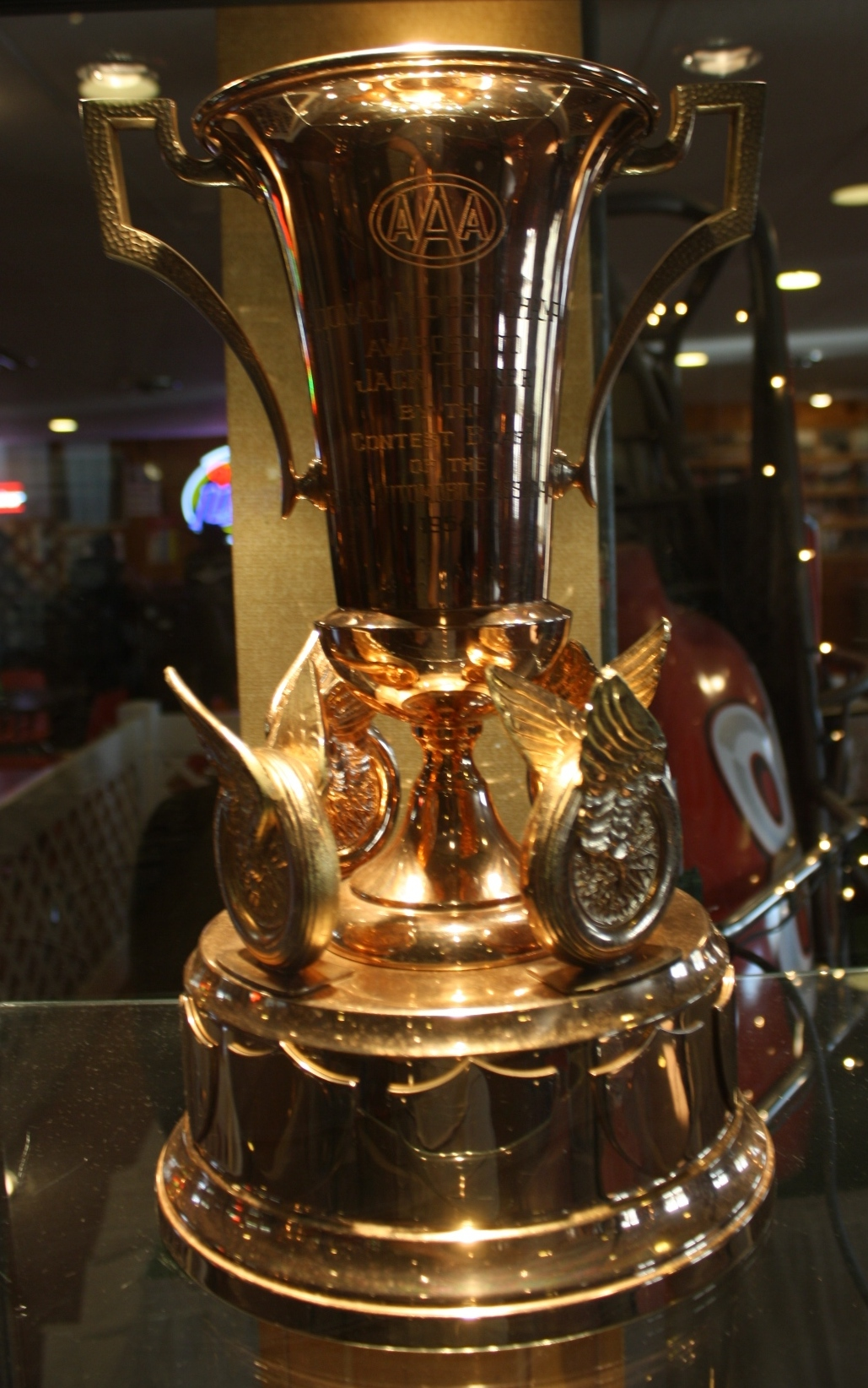 The trophy that Jack Turner (racing driver) was awarded for winning the 1954 AAA National Midget championship.